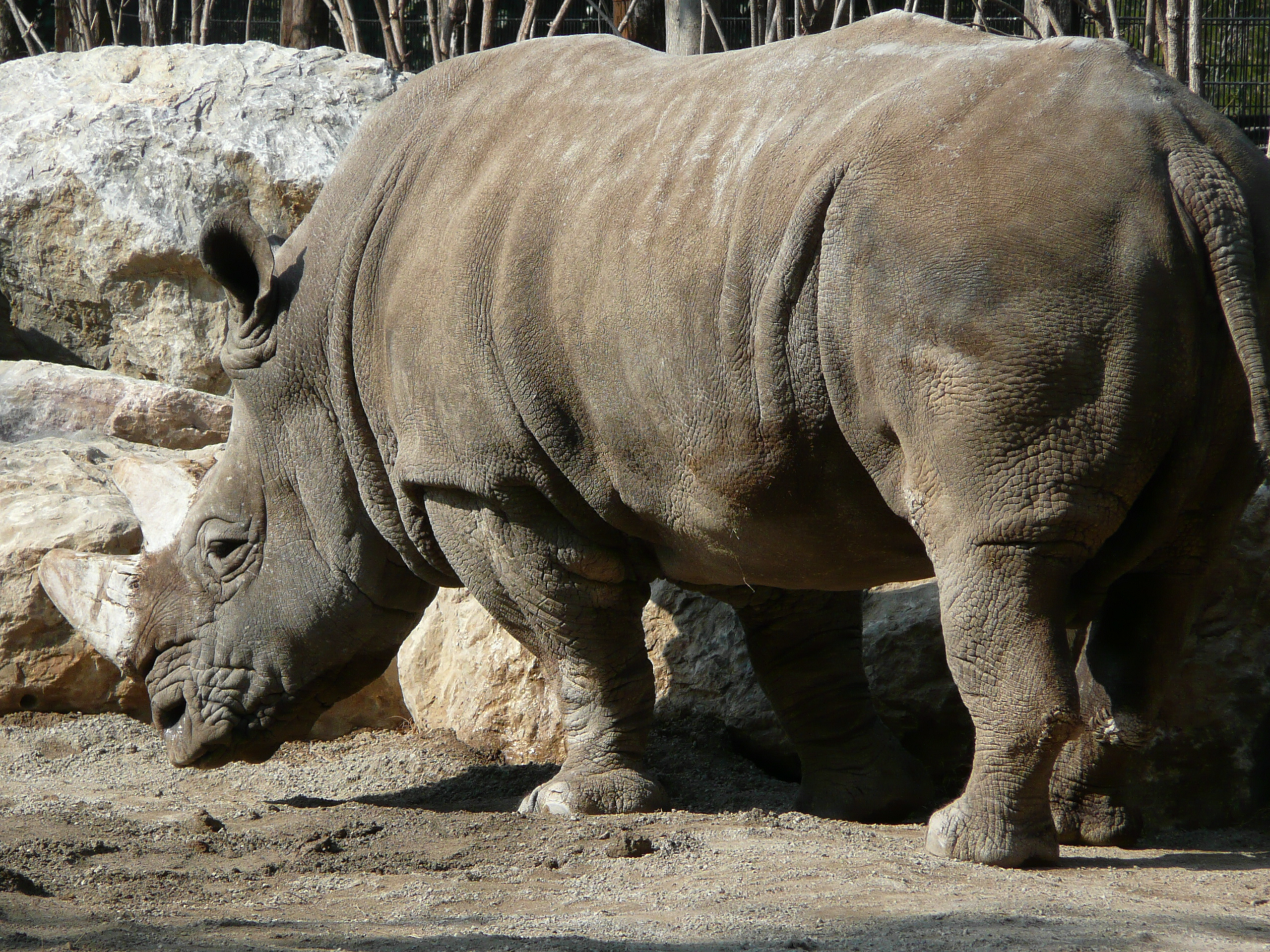 A Rhyno in ITALY